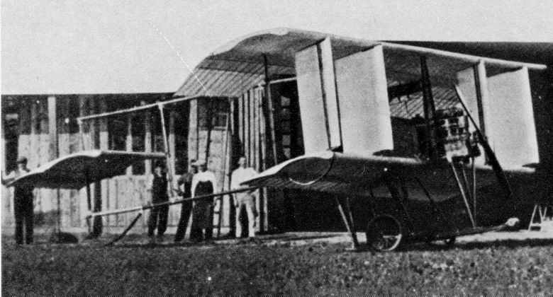 A photograph of Gianni Caproni's Caproni Ca.6 experimental biplane. Vizzola Ticino, 1911-1913.